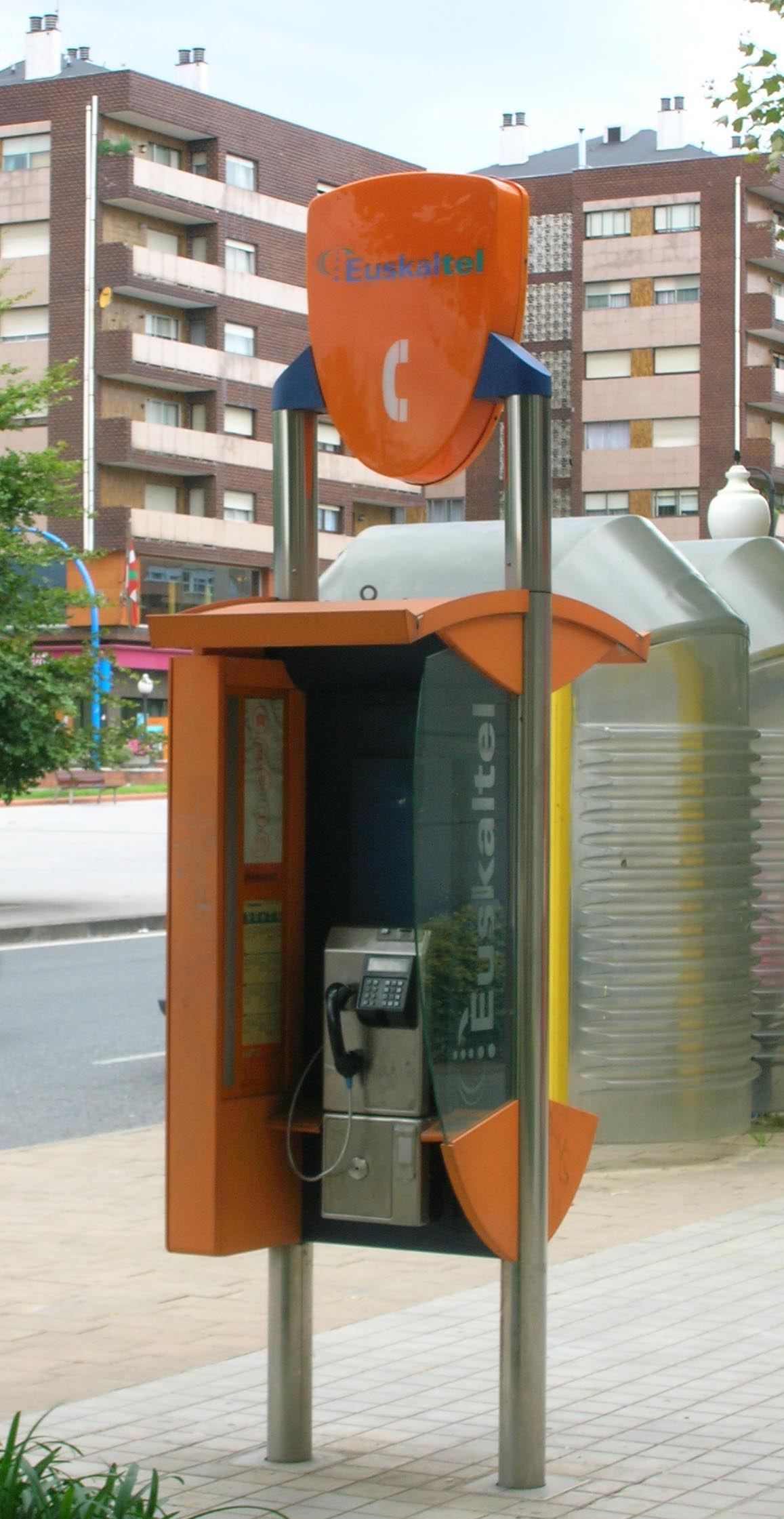 Euskaltel phone booth. Behind, a Bizkaibus bus stop. Beyond, batzoki (Basque Nationalist Party's premises) of Leioa.